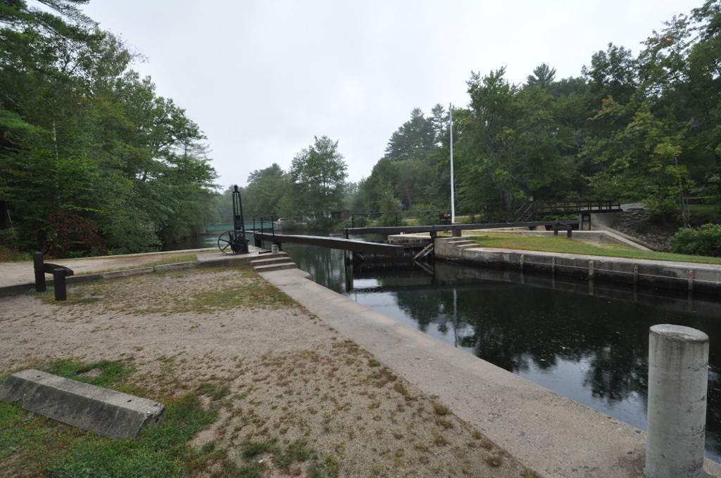 Songo Lock, the only surviving lock of the Cumberland and Oxford Canal; located in Naples, Maine.